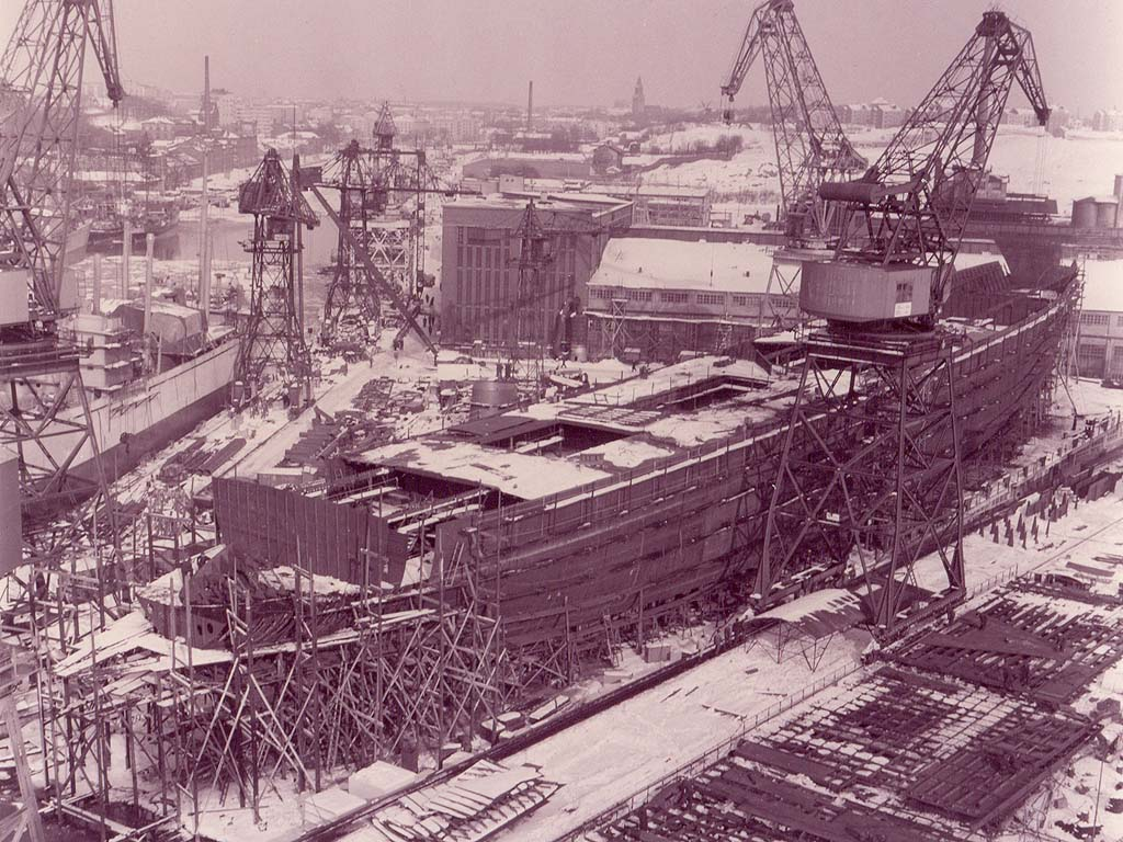 Wärtsilä Crichton-Vulcan shipyard, east side, slipway no 3.